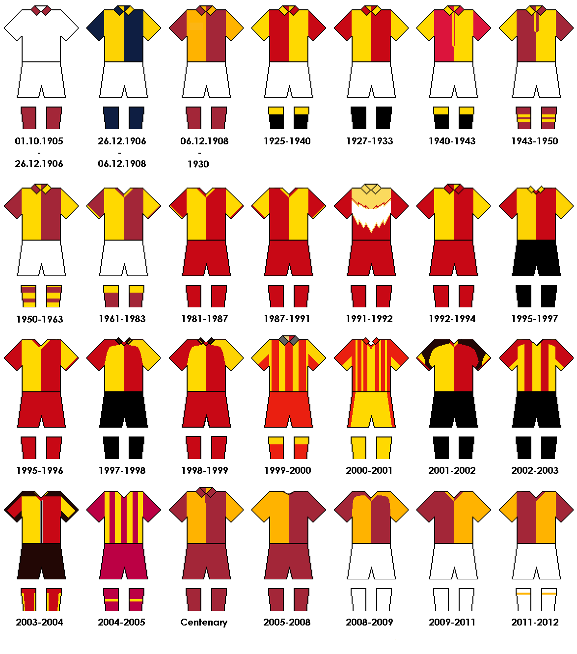 Galatasaray SK kit History